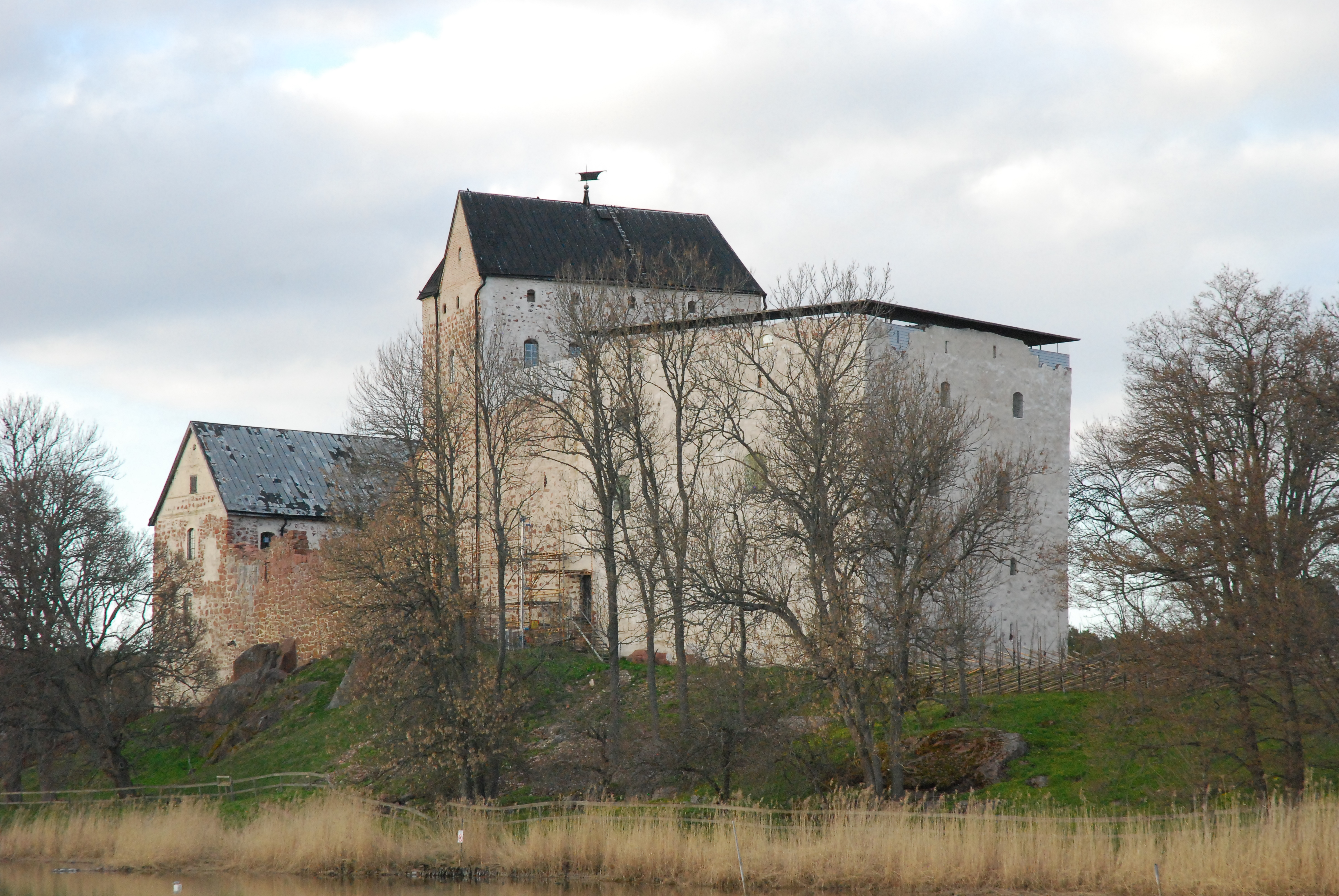 Kastelholms slott